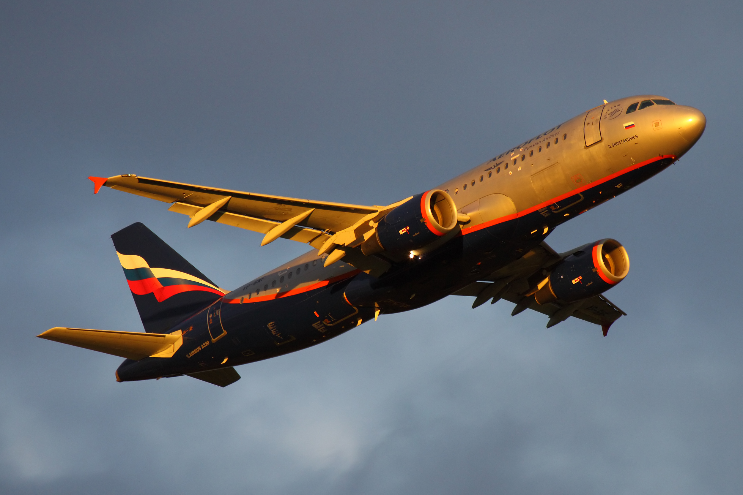 Sunlight hits an Aeroflot Airbus A320-200 as it climbs out of Sheremetyevo Airport